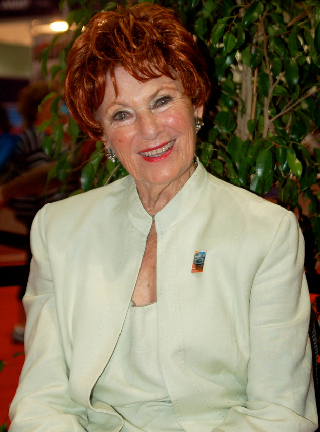 Marion Ross attending the AARP's 2011 Life@50+ National Event and Expo in September 2011.